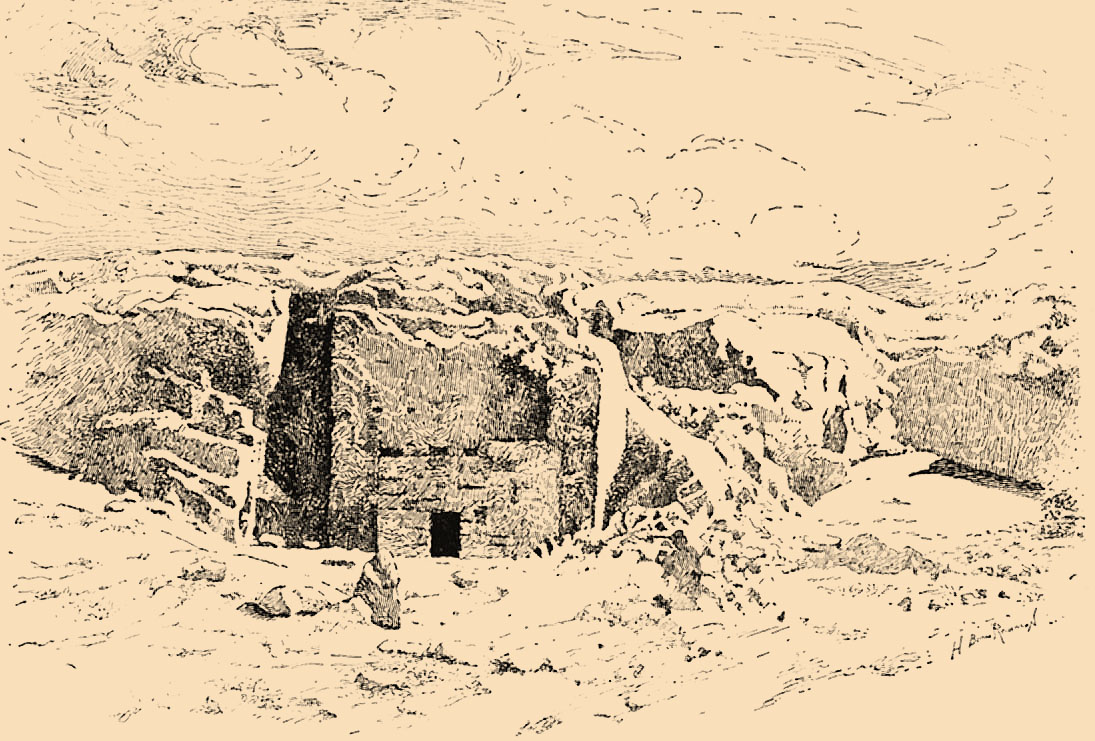 Illustration from Brockhaus and Efron Jewish Encyclopedia (1906—1913)